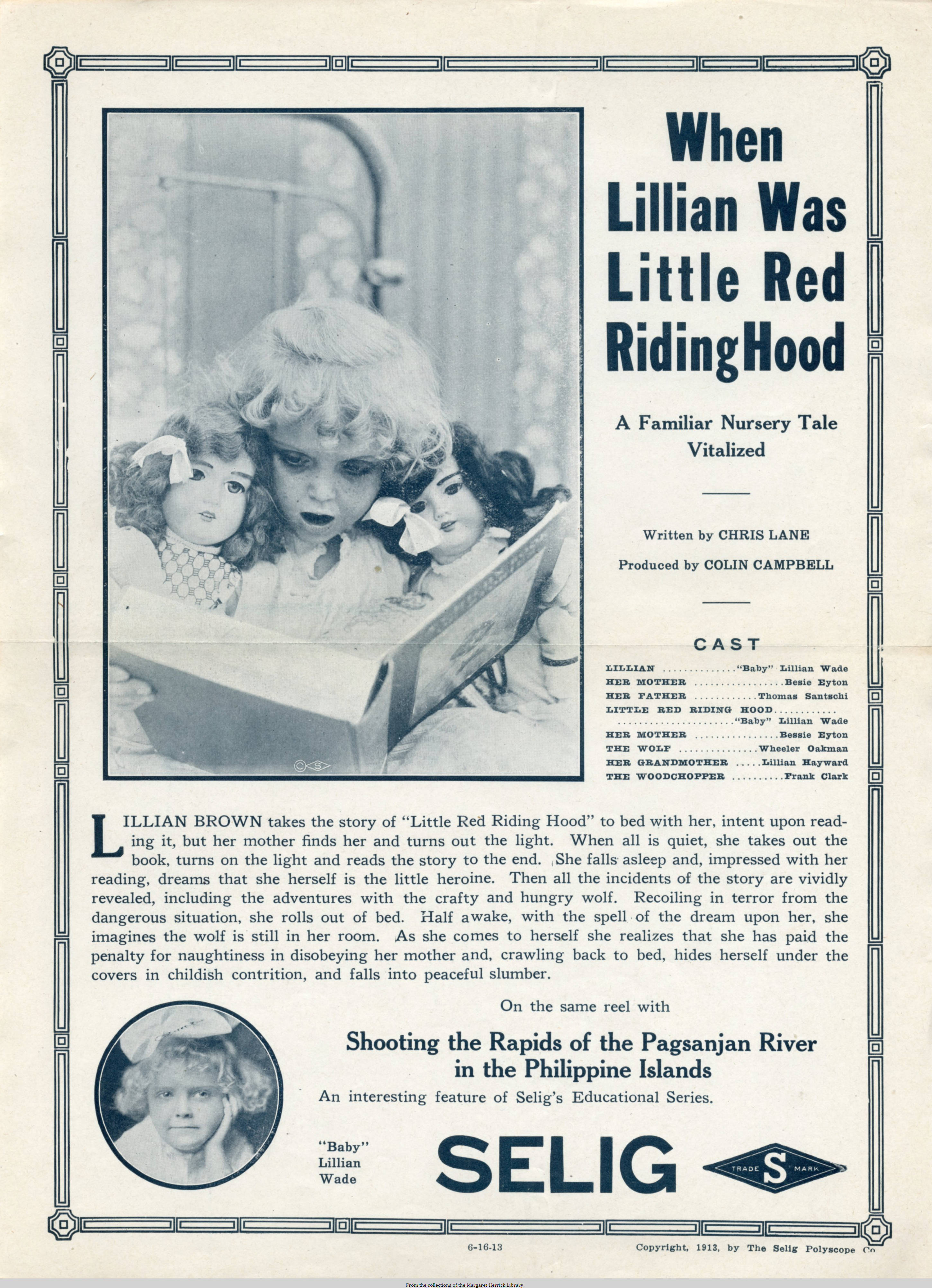 Release flier for WHEN LILLIAN WAS LITTLE RED RIDING HOOD, 1913